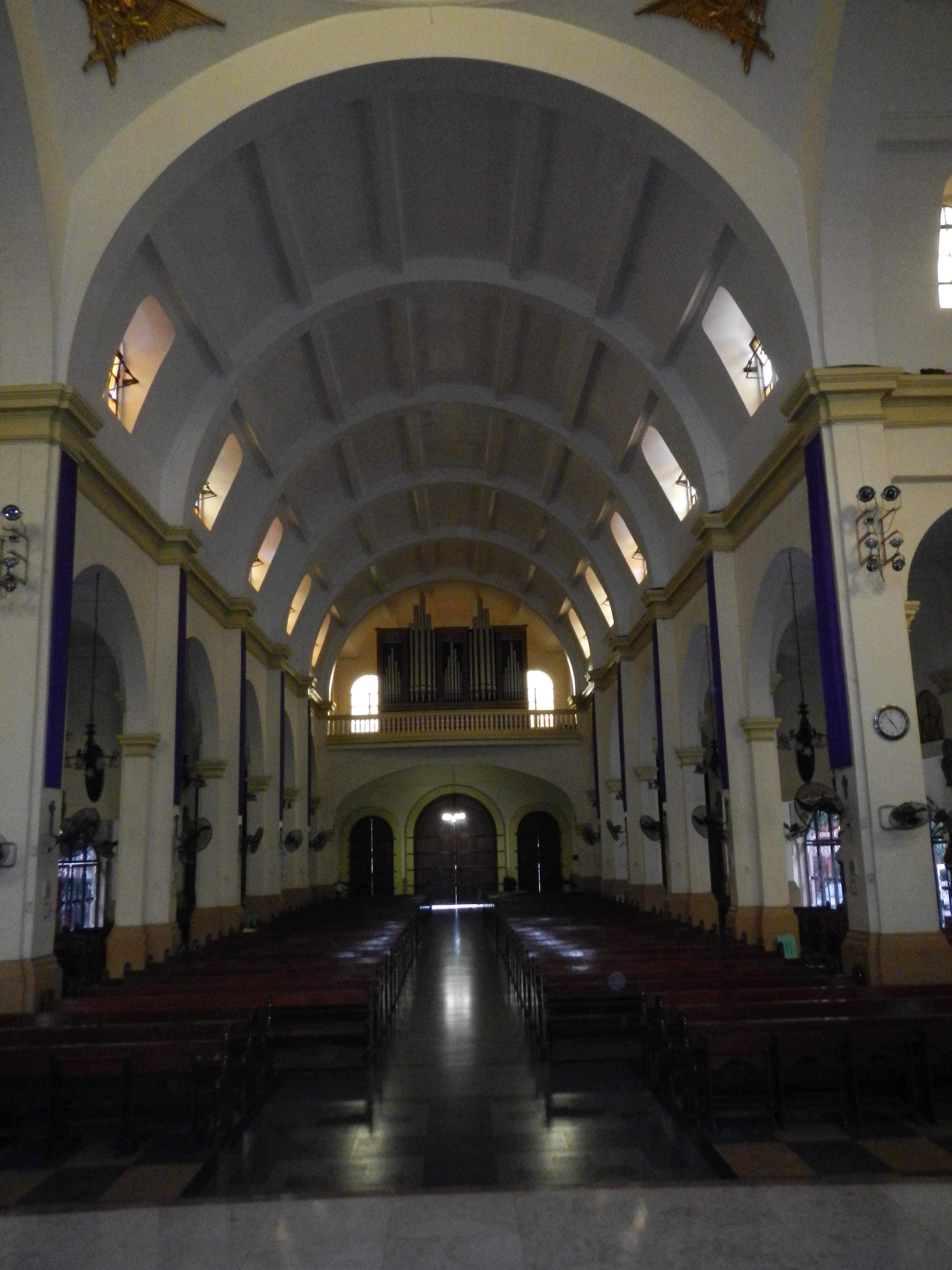 San Fernando de Dilao Church[1] 1521 Paz Street, Paco, Manila. The San Fernando de Dilao Church is a Roman Catholic parish located in Paco, Manila, Philippines, honoring Saint King Ferdinand III of Castile of Spain. Since February 2012, the parish has been used as current temporal church by the Archdiocese of Manila[2], until the structural renovations of Cathedral-Basilica of the Immaculate Conception are completed. The church inside is notable for its baroque interior, most notably the Latin inscriptions similar in style to Saint Peter's Basilica in Vatican City. The church is currently administered by its parochial priest, Monsignor Fray Rolando de la Cruz, the Vicar-general and Moderator Curiae of the Archdiocese of Manila. [3][4][5]Coordinates: 14°34'45"N 120°59'40"E [6]Paco, formerly known as Dilao, is a district of Manila, Philippines. [7]Pastor: Msgr. Rolando R. dela Cruz